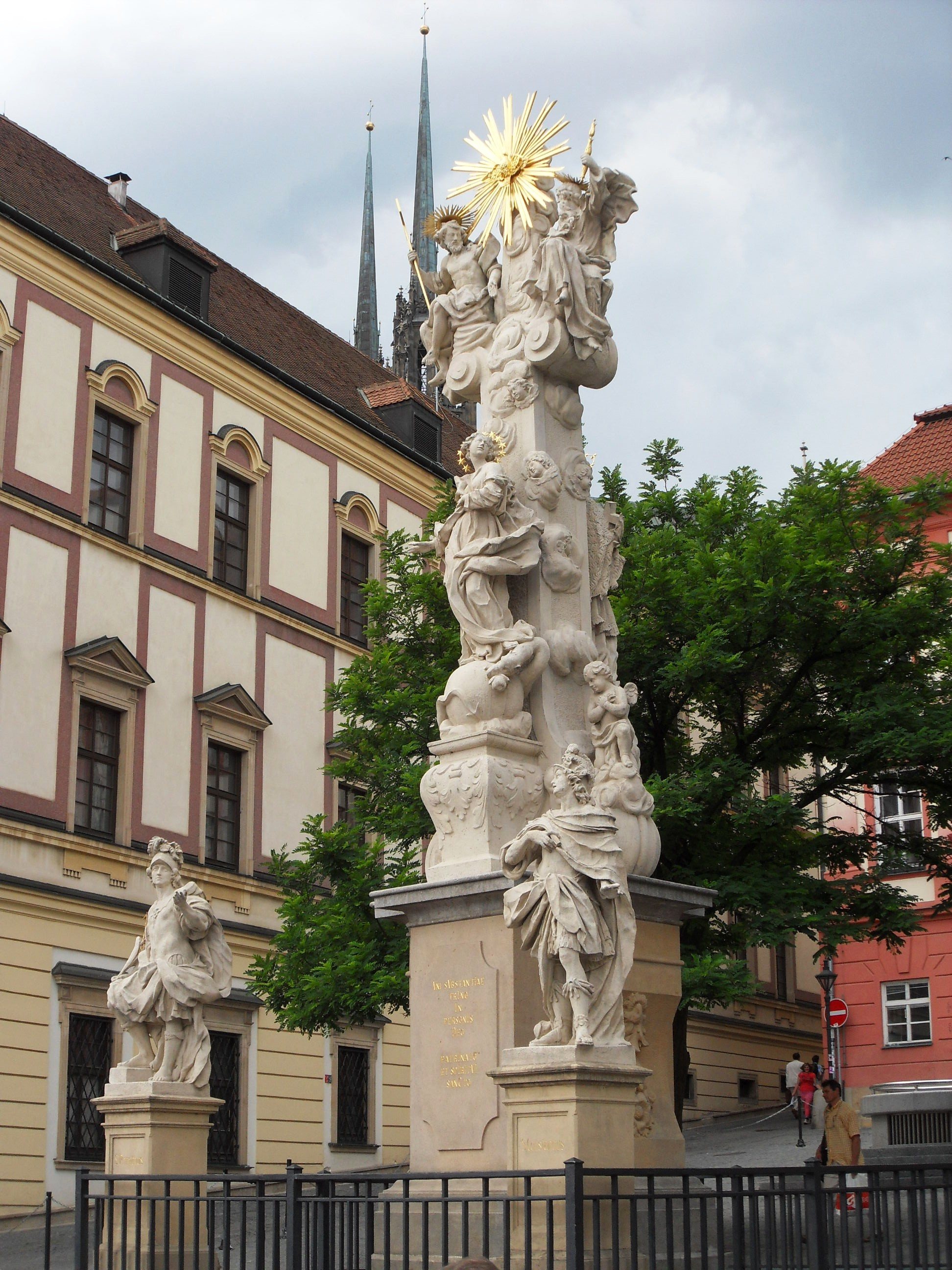 Holy Trinity column, Zelný trh square, Brno, Czech Republic